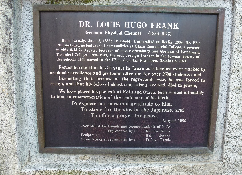 Statue and Name board to honour the doctor, spent by his japanese friends and students.